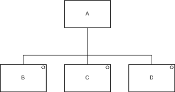 JSP Selection